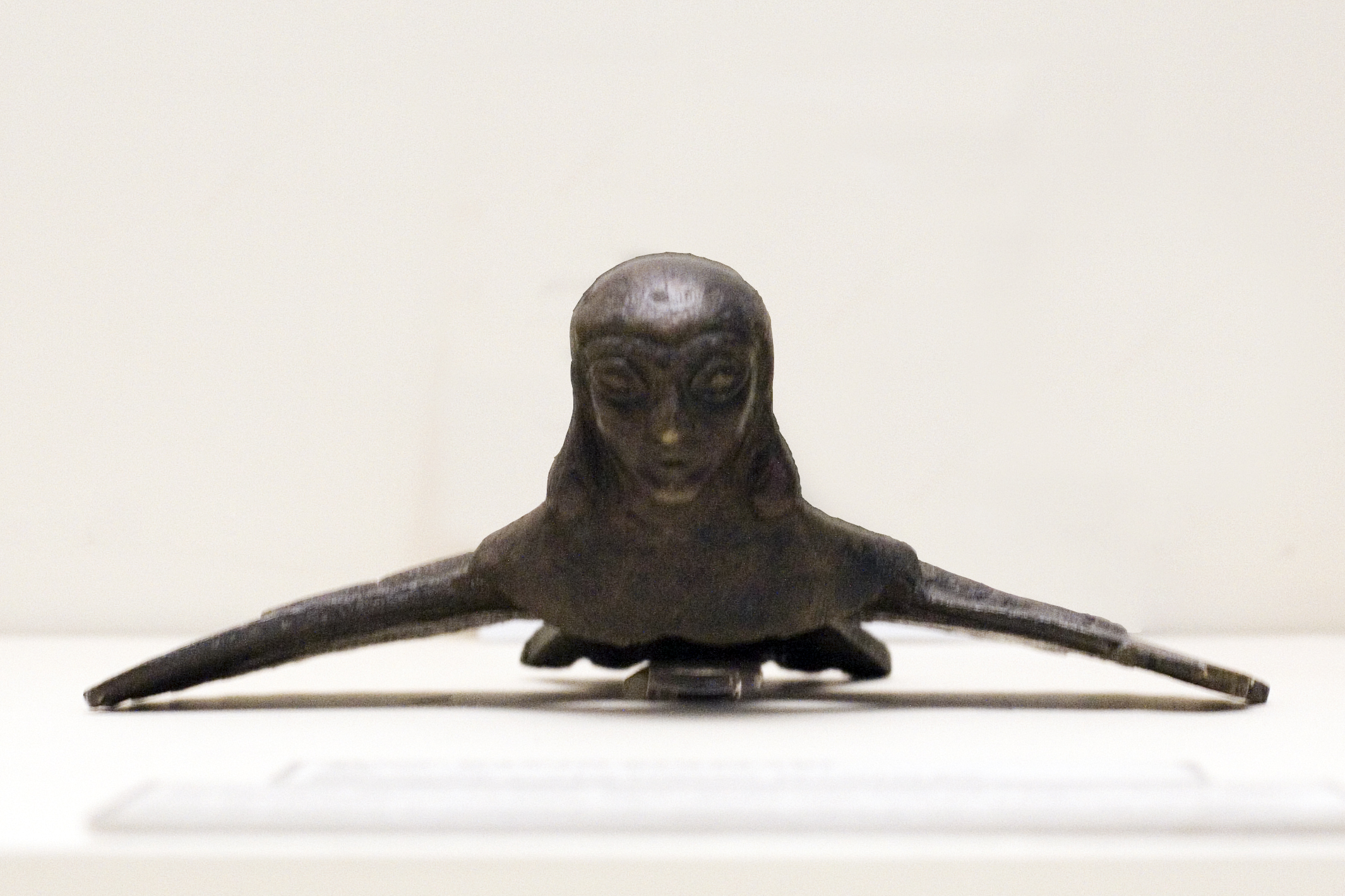 Bronze figurine of goddess Tushpuea, Istanbul Archaeology Museums